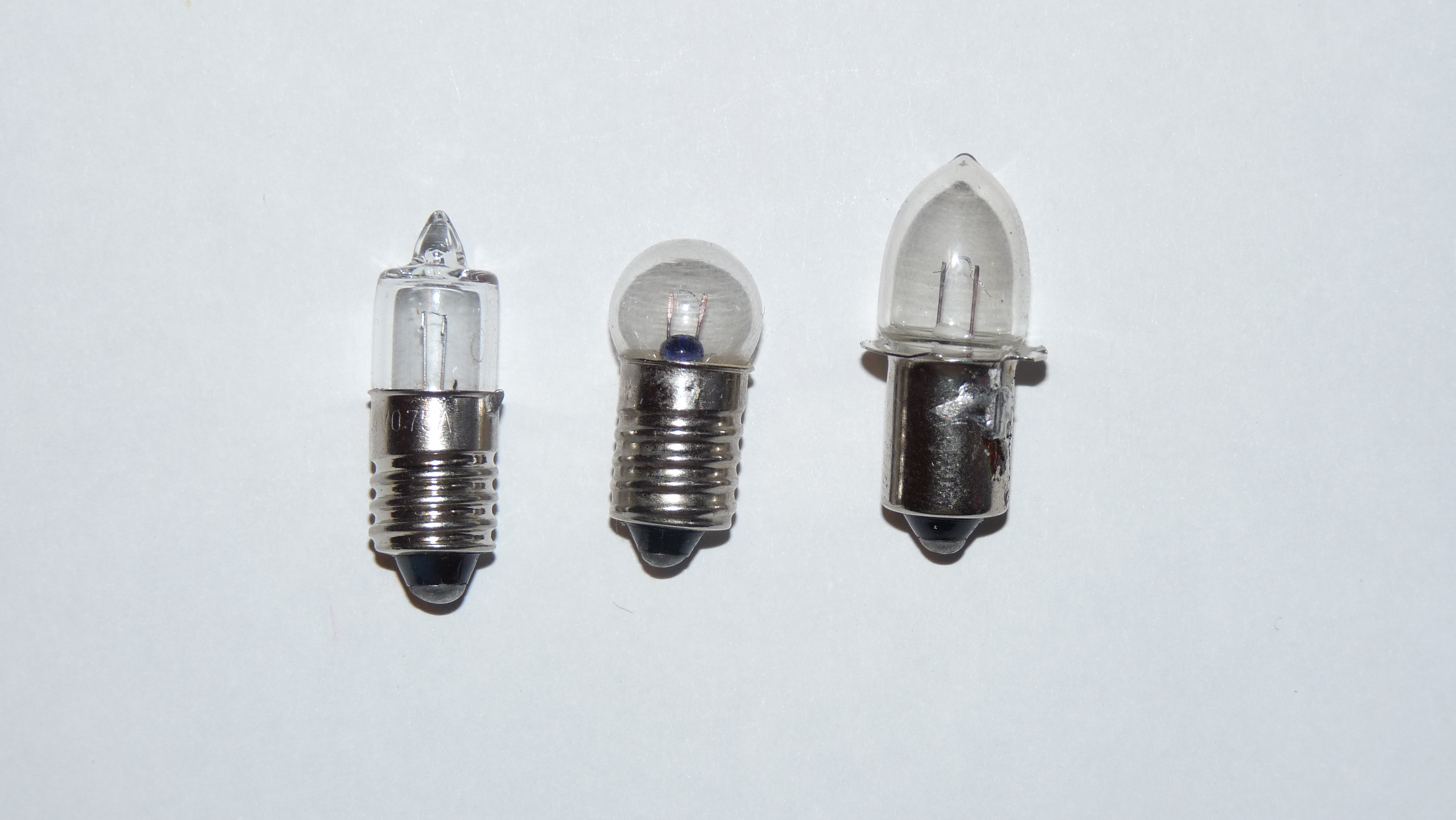 Various lightbulbs for flashlight. The left and center bulbs have E10 screw-in threads, the right one is a P13.5 push-in type bulb.